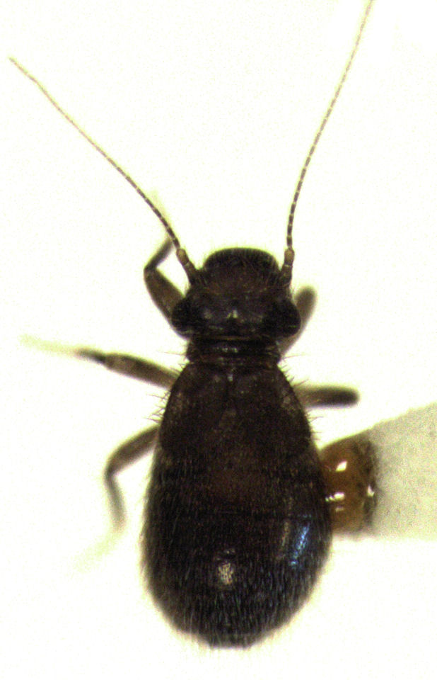 adult Lepinotus sp. (tasmaniensis?) (length about 1.6 mm)